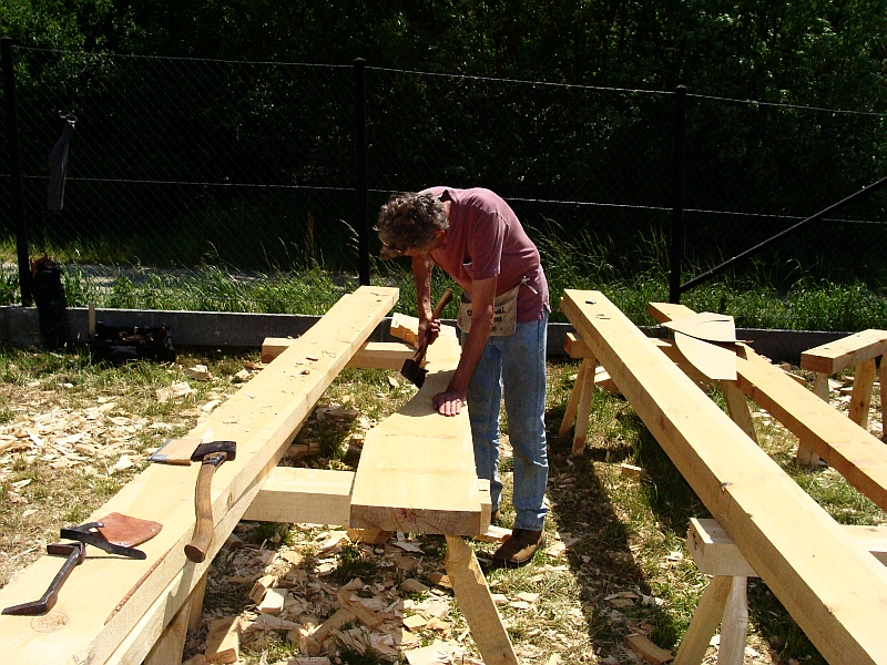 Construction of the synagogue roof replica at Sanok Skansen